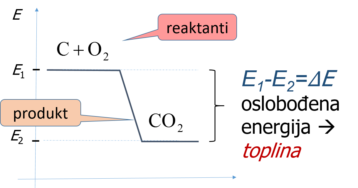 Products has less energy than the reactants